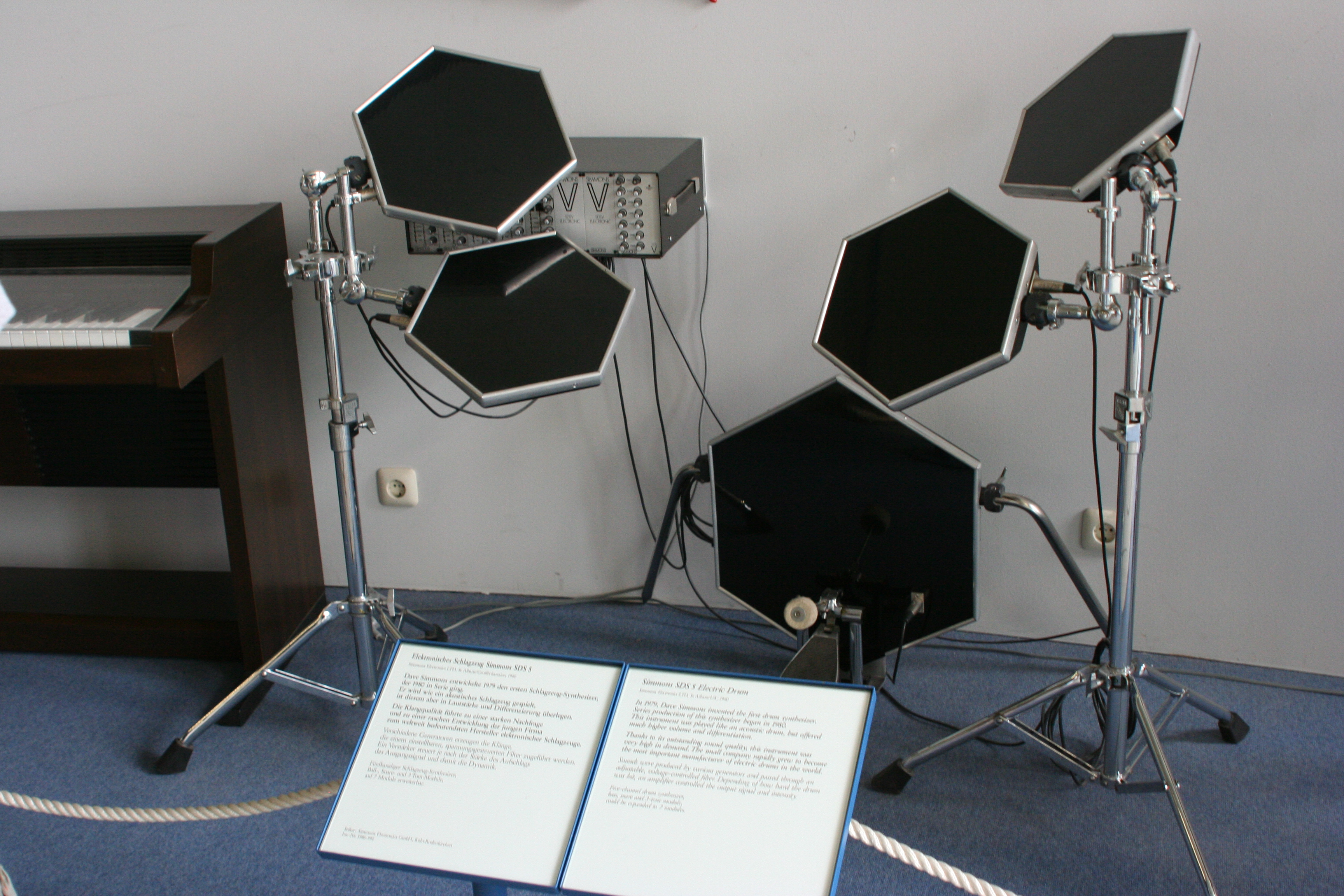 Early electronic drums Simmons SDS 5 ca. 1979 as seen in the Deutsches Museum in Munich Germany Simmons SDS 5 - Modular analog drum synthesizer